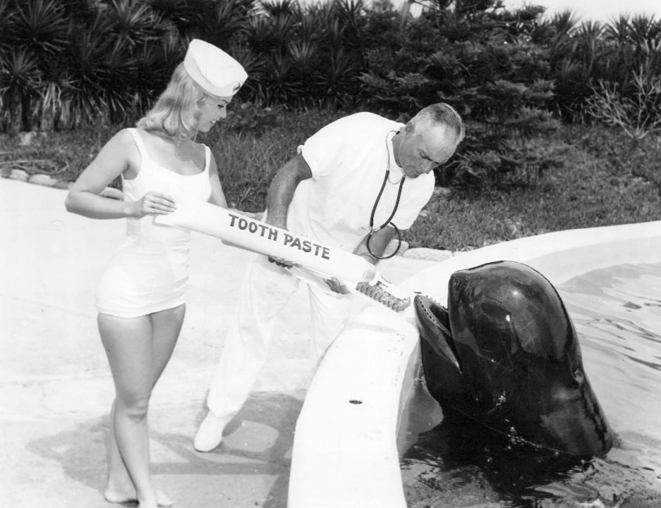 Publicity photo of Marineland of Florida's Moby the Whale having a "dental checkup".